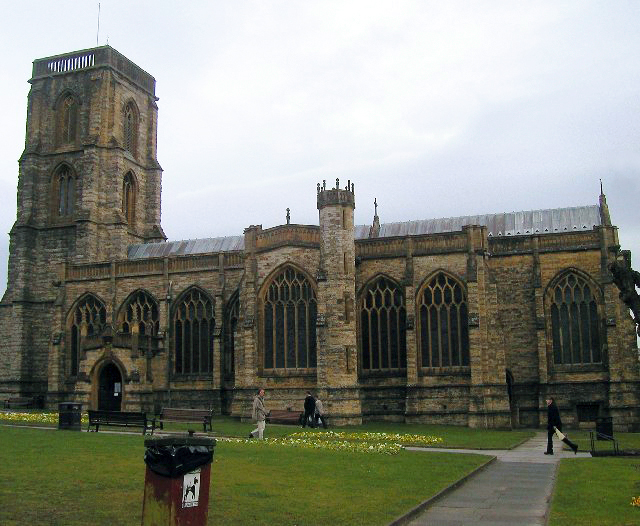 St John the Baptist parish church, Yeovil, Somerset, seen from the south